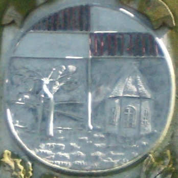 emblem of village at memorial of warrior in front of Church in Nackel in Brandenburg, Germany